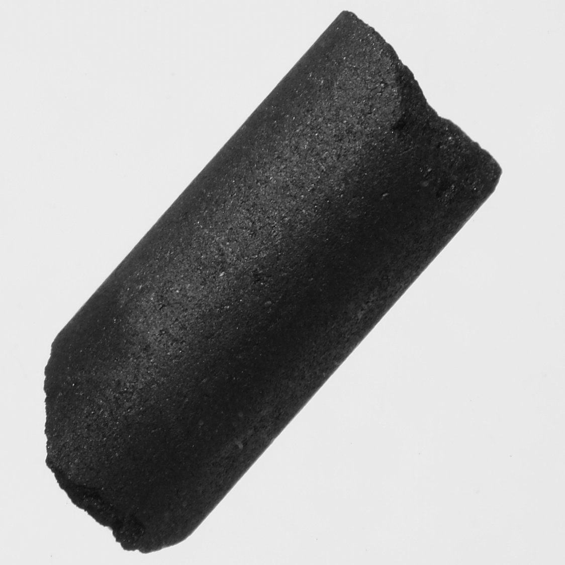 99.999 pure graphite bar, 1 x 3 cm.